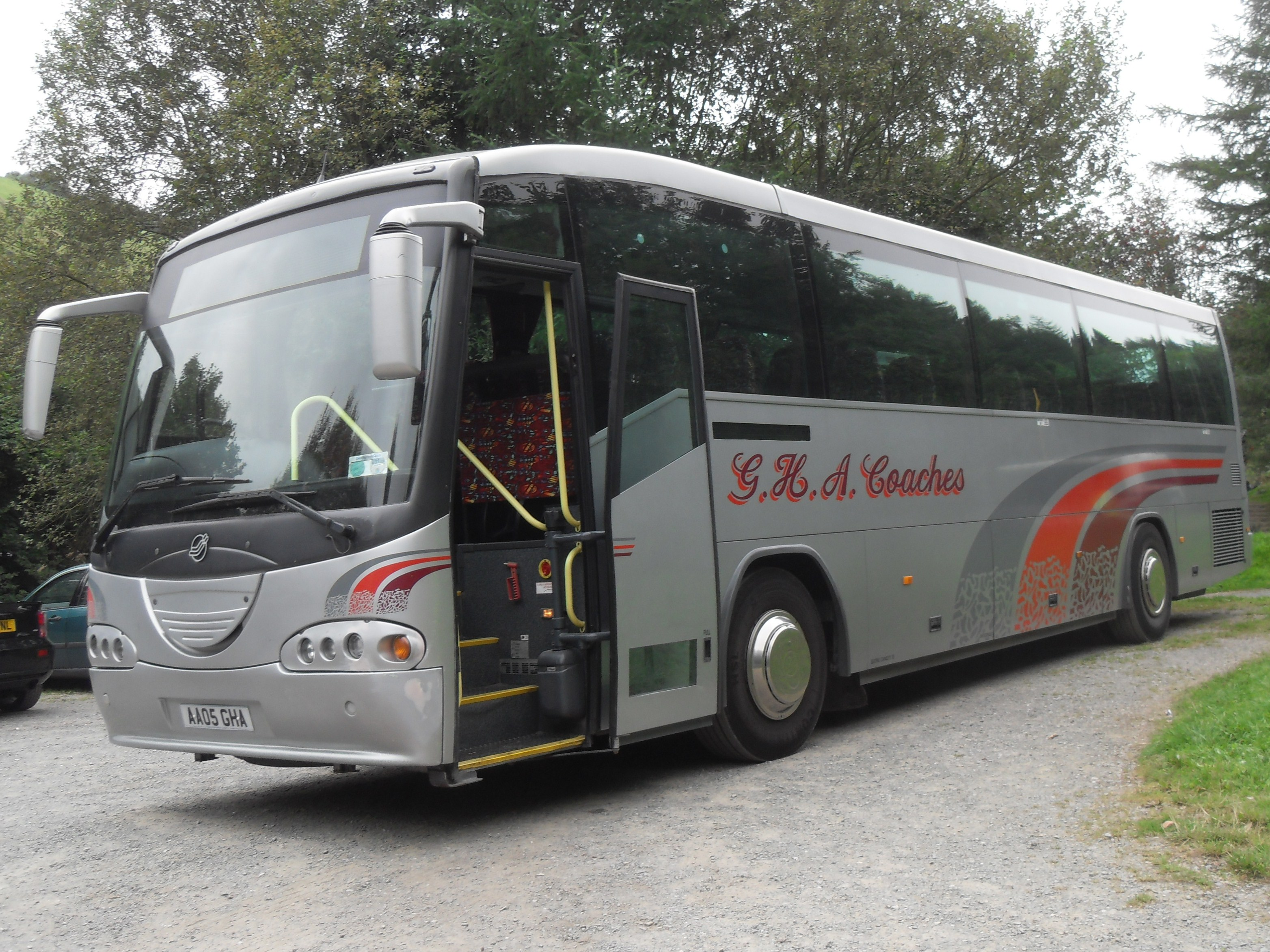 AA05 GHA of GHA Coaches.